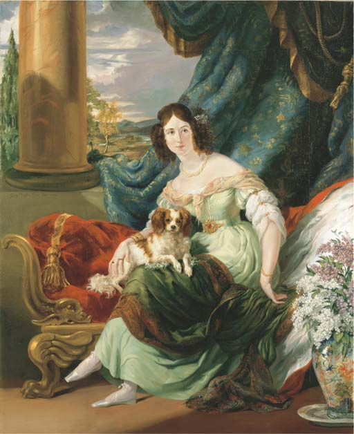 The sitter, Charlotte (1795-1875), daughter of Camille de Lantivy du Rest (b. 1760) and Adelaide Blanc du Bois (1767-1856), was the wife of Arthur, Comte de Bourgannaye (1785-1844), the eldest son of Charles, Comte de Bourdonnaye (1752-1829) and Louise de Chauvelin (1763-1788).